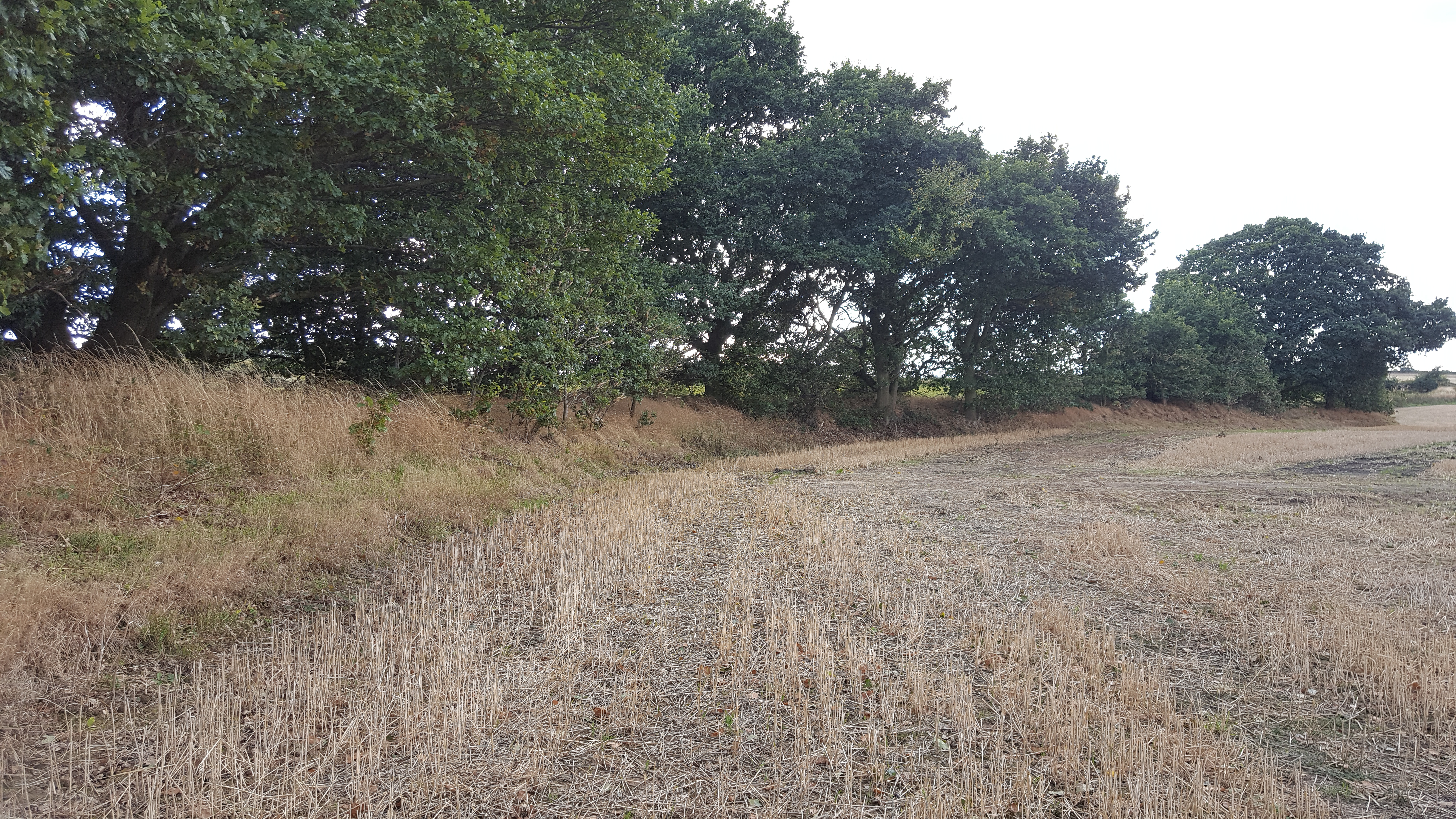 Roman Ridge: section 400yds (370m) long S of Abdy Farm Wikidata has entry Q17643362 with data related to this item.